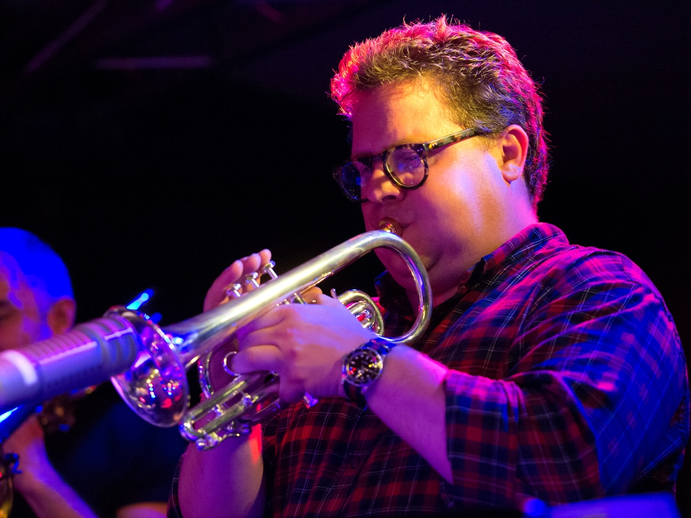 Kasper Tranberg, Jazz trumpeter; Picture taken in Jazz Club Unterfahrt, Munich/Bavaria